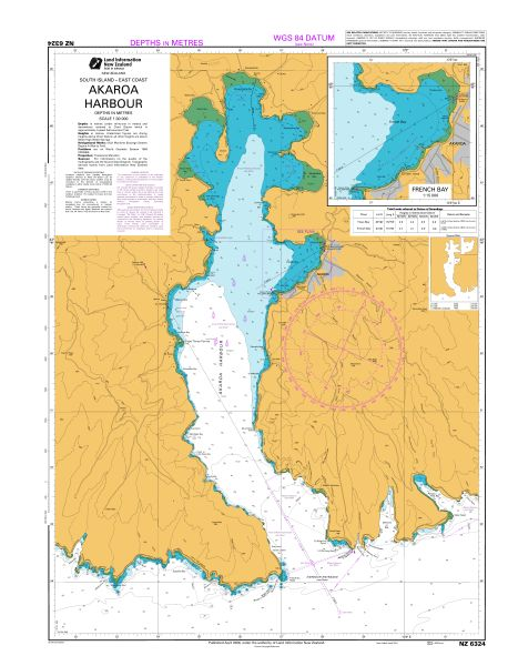 Thumbnail of nautical chart NZ 6324 Akaroa Harbour published by LINZ.